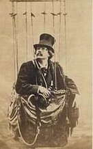 Self-portrait of Felix Nadar